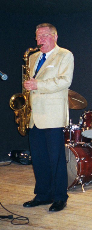 Gunnar "Hacke" Björksten (born 1934), Finnish-born Swedish jazz musician, performing at Akademiska Föreningen in Lund during the spring of 2001.